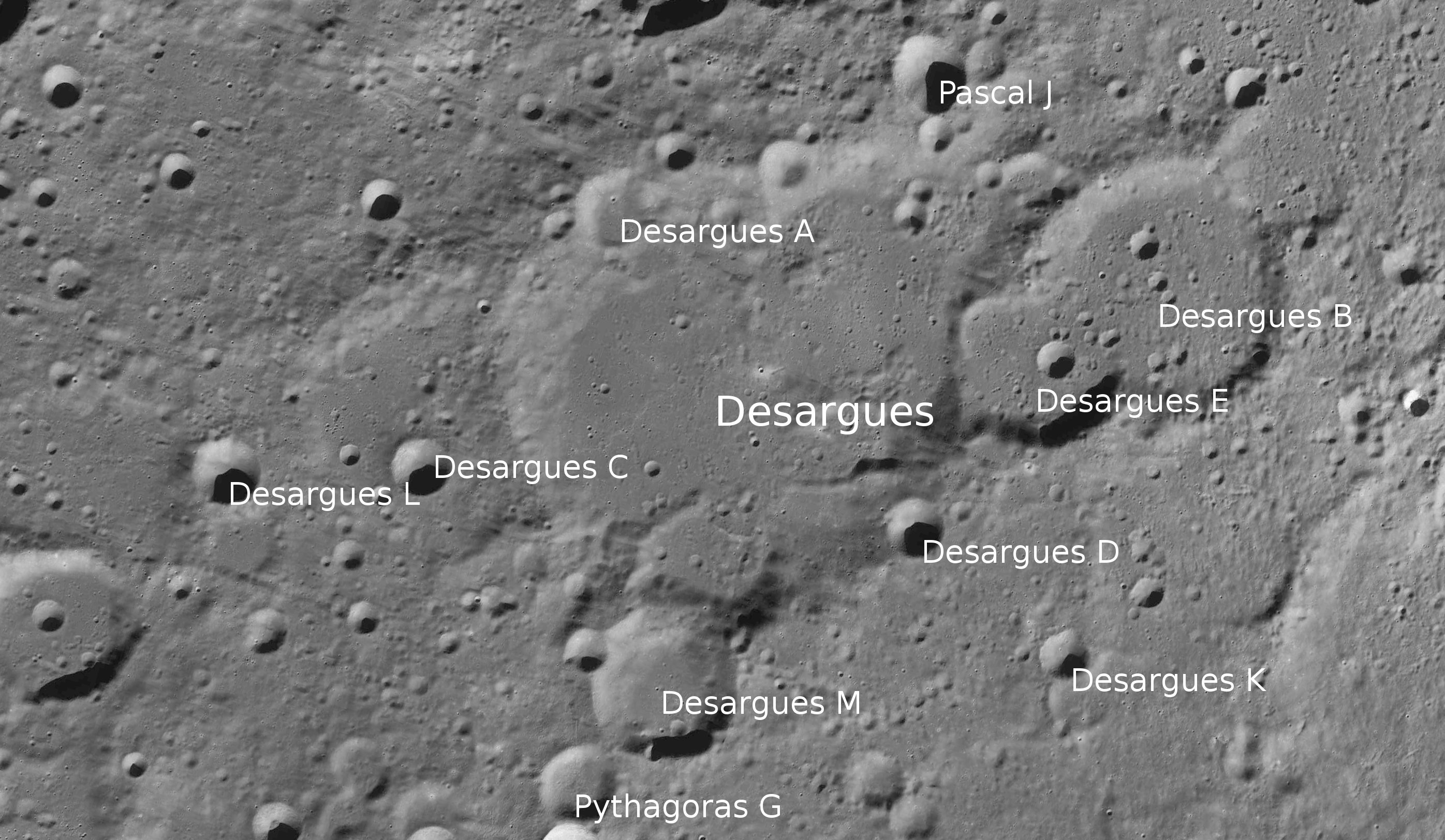 Moon crater Desargues with satellite features (north at top; detail of LRO - WAC north pole mosaic)